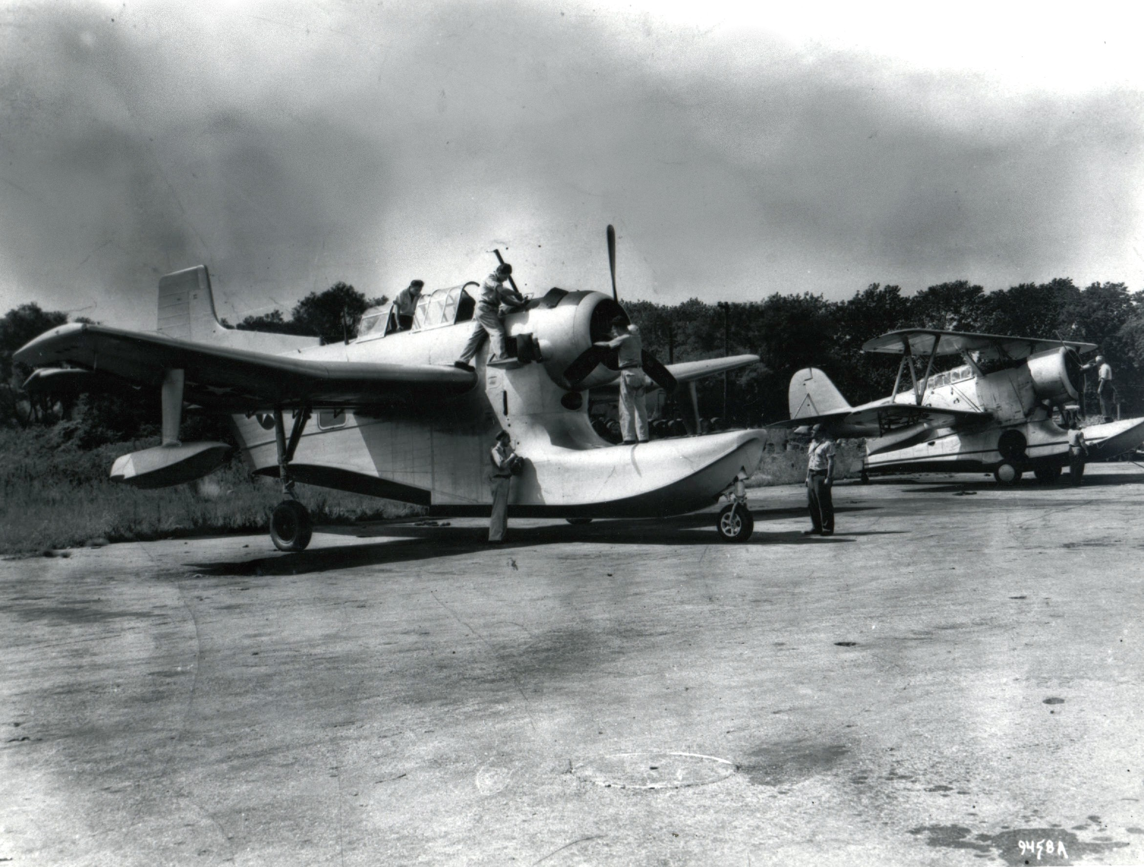 A U.S. Navy Grumman J2F Duck (back) with the XJL-1, a monoplane amphibian built by Columbia Aircraft Corporation. It was intended to replace the J2F but the type did not reach production status.